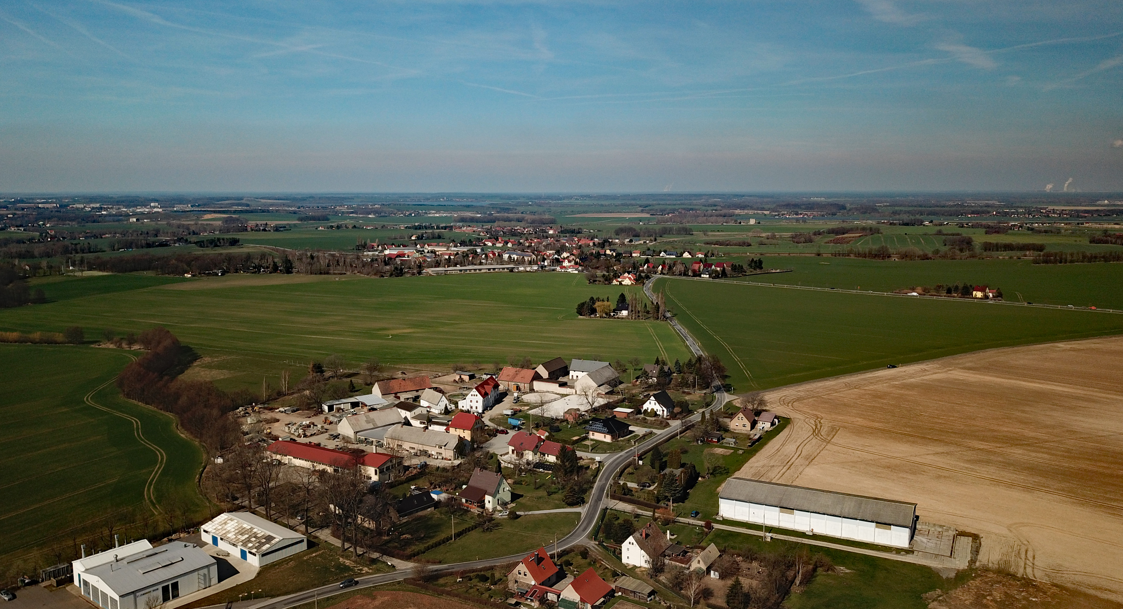 Scheckwitz (Kubschütz, Saxony, Germany) Hornjoserbsce: Powětrowy wobraz Šekec Dieses Foto wurde mit einem Quadcopter innerhalb der RMZ des Flugplatzes EDAB aufgenommen. Der Flugleiter wurde am Aufnahmetag telephonisch über Ort und Zeit informiert und hat zugestimmt. Der Flug erfolgte auf Grundlage der Allgemeinverfügung der Landesdirektion Sachsen zur Erteilung der Betriebserlaubnis für unbemannte Luftfahrtsysteme und Flugmodelle gemäß § 21a LuftVO und Zulassung von Ausnahmen von Betriebsverboten gemäß § 21b LuftVO für den Freistaat Sachsen.